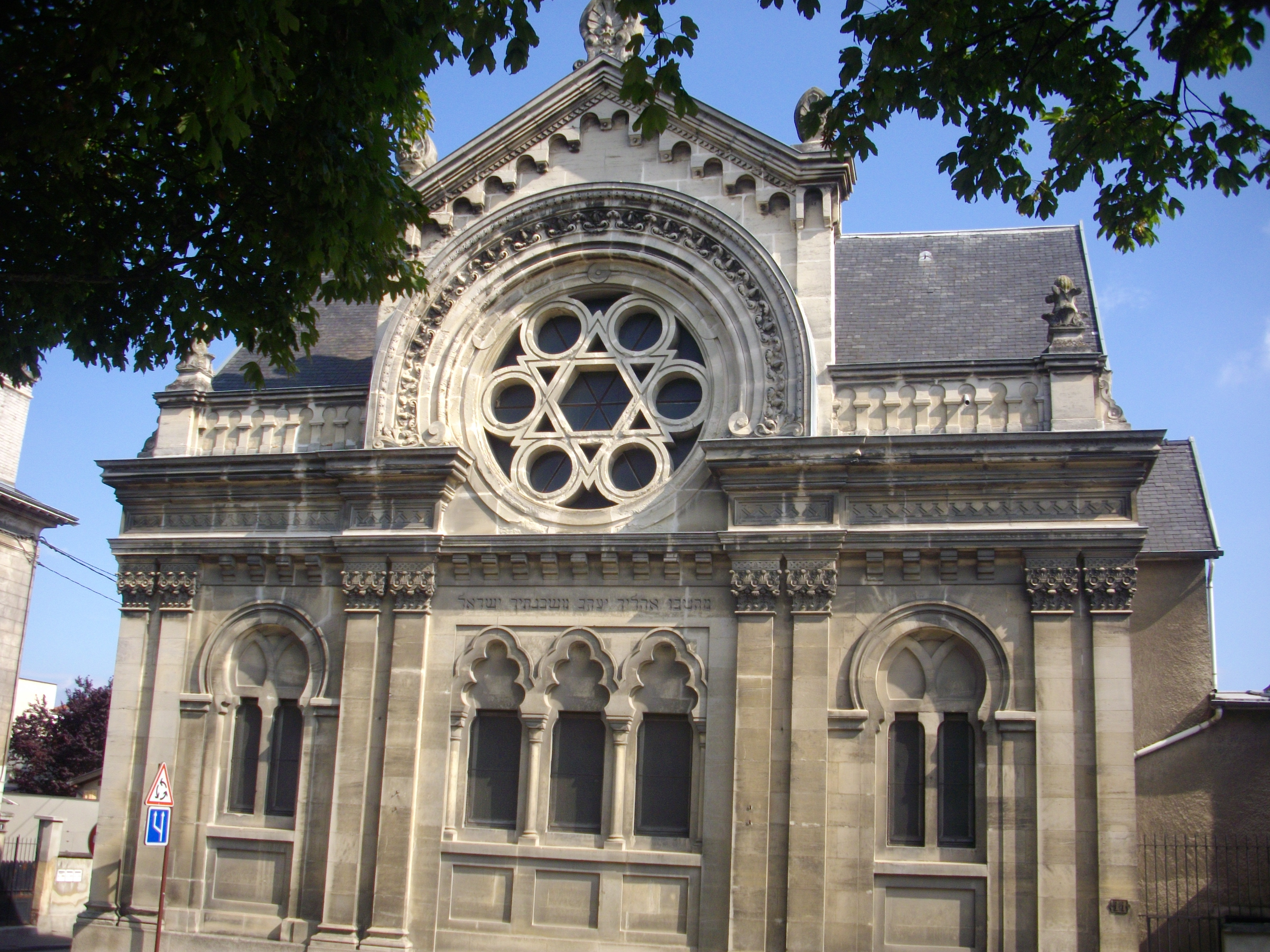 Synagogue of Épernay (Marne, France)